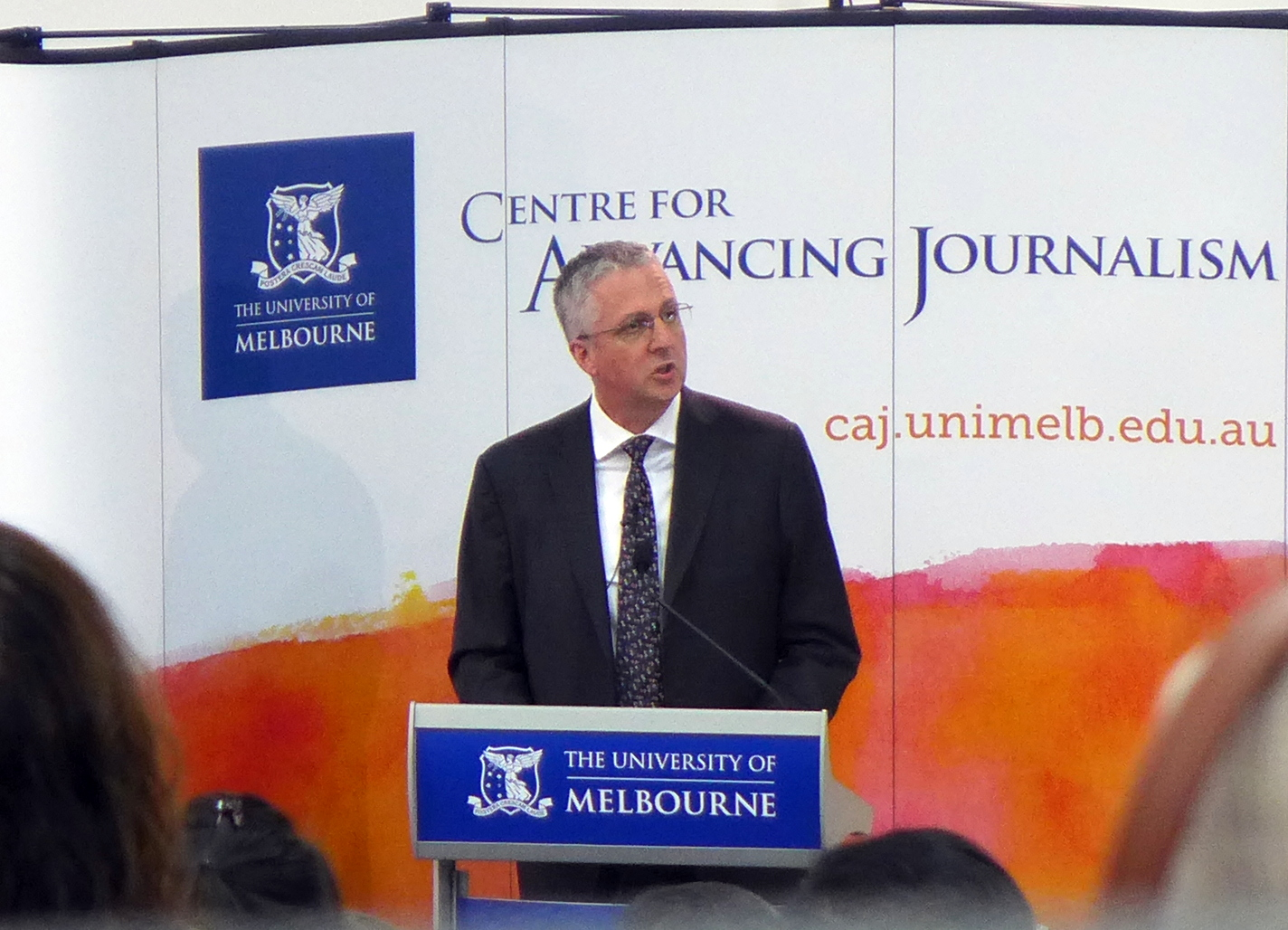 ABC Managing Director Mark Scott speaking about the future of digital media, at the University of Melbourne on April 1st, 2014.